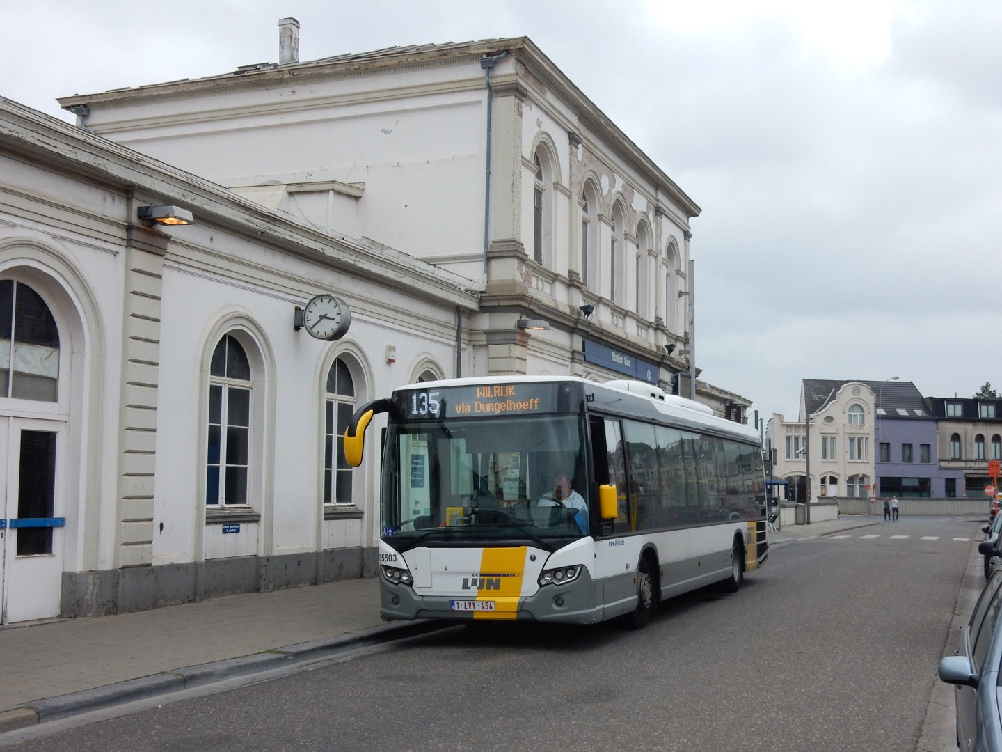 Bus at Lier train station